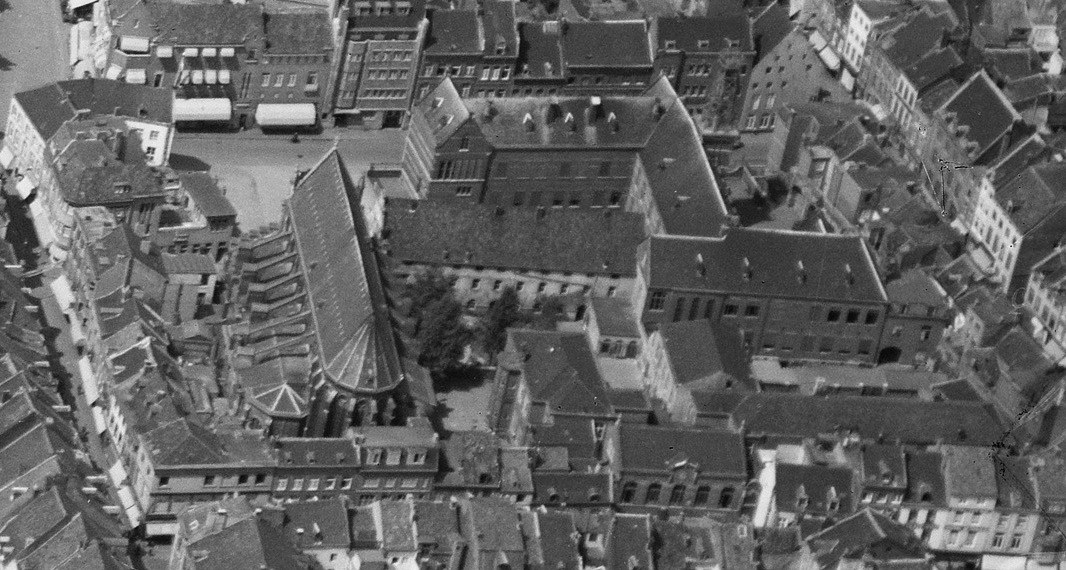 Aerial photograph of Maastricht, The Netherlands, 1937